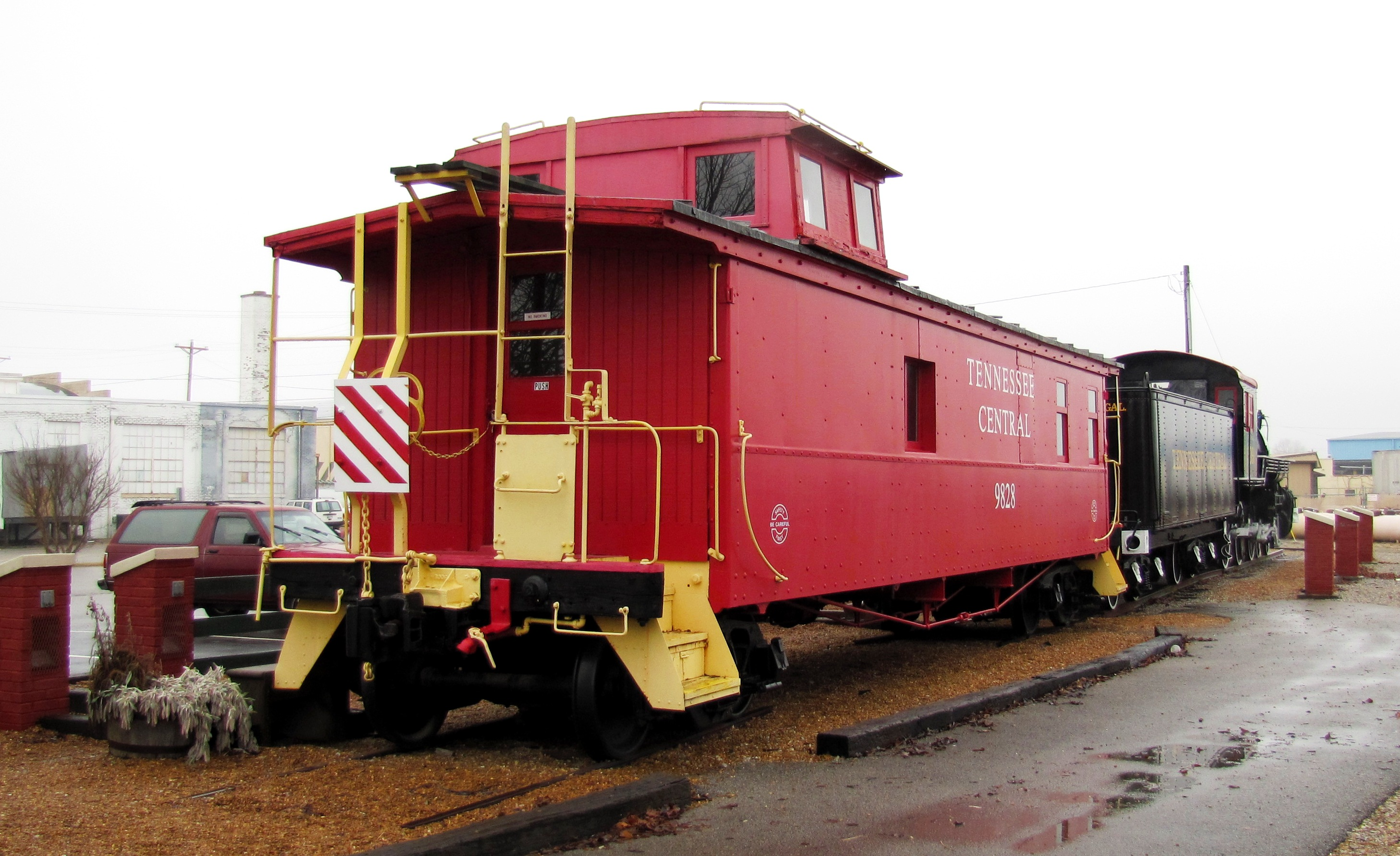 Cupola-style caboose at the Cookeville Depot Museum in Cookeville, Tennessee, USA. The museum, housed in Cookeville's Tennessee Central Depot, acquired and restored this caboose in 2005.